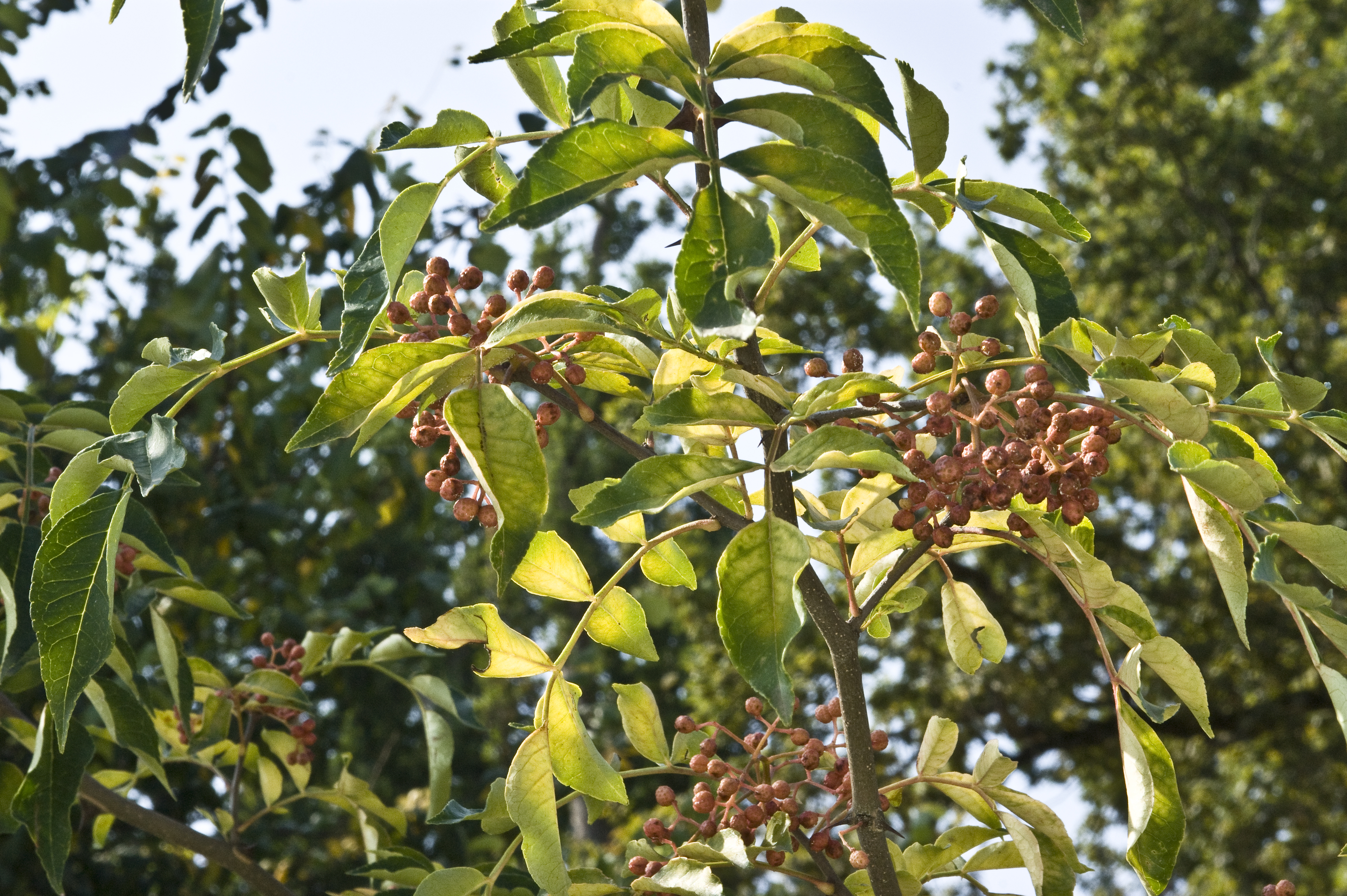 Sichuan pepper (Zanthoxylum piperitum) fruit and leaves